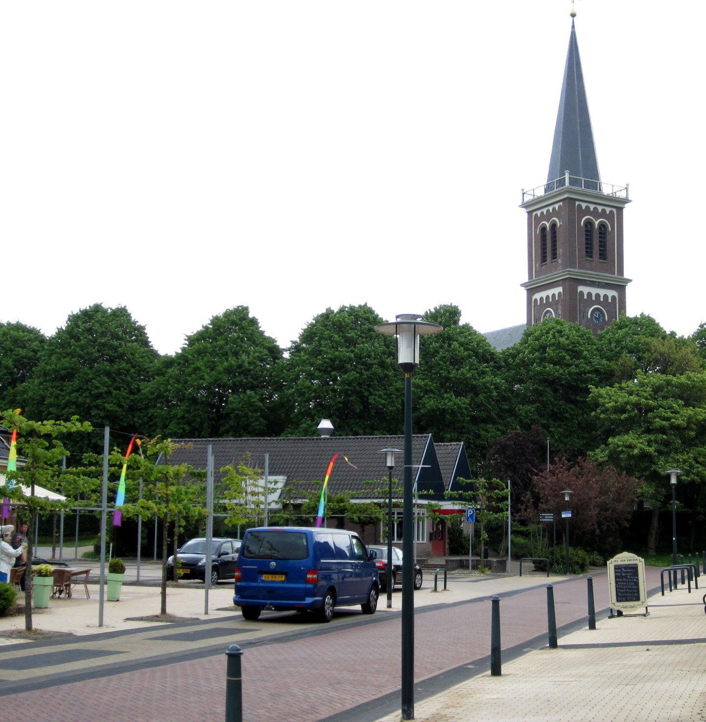 Greatebuorren (street) in the village of Menaam (Menaldum), Friesland, the Netherlands, with the church tower in the background.